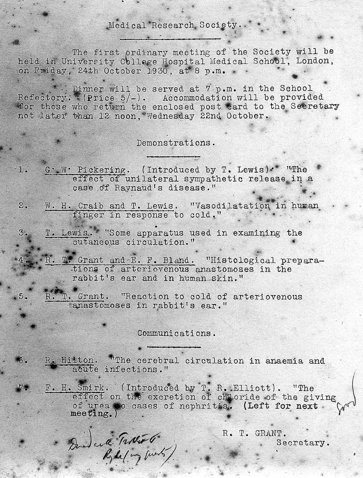 Minutes from Medical Research Society, 24 October 1930. Archives & Manuscripts Keywords: Thomas Lewis